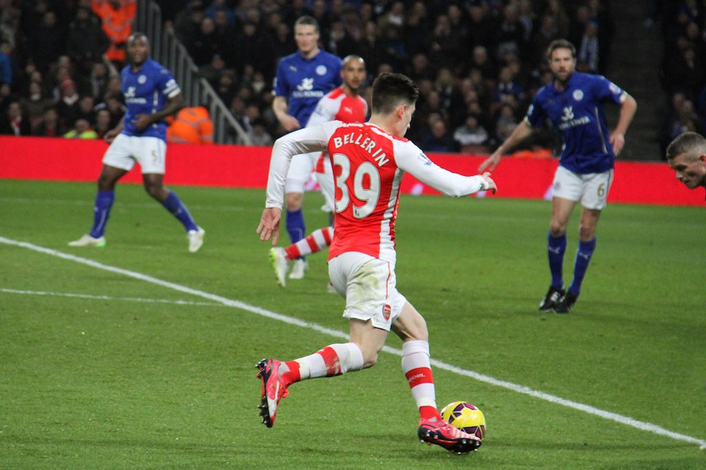 Bellerin on the ball 2